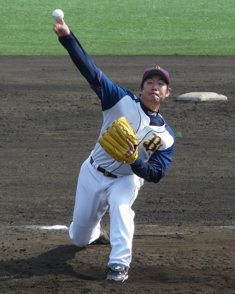 OB-Daisuke-Kato20100521